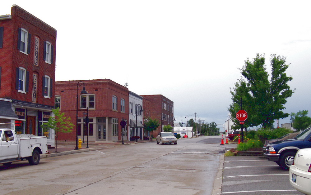 A picture that I took of Wentzville, and added to the Internet for people to publicly see. Looking West down Main Street across Linn Avenue.